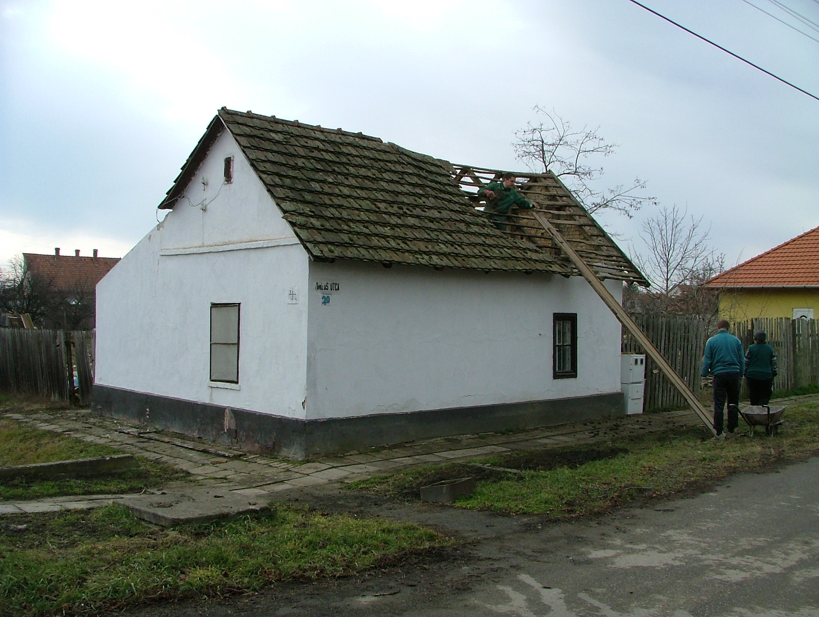 Destruction of an old house in Gyálarét